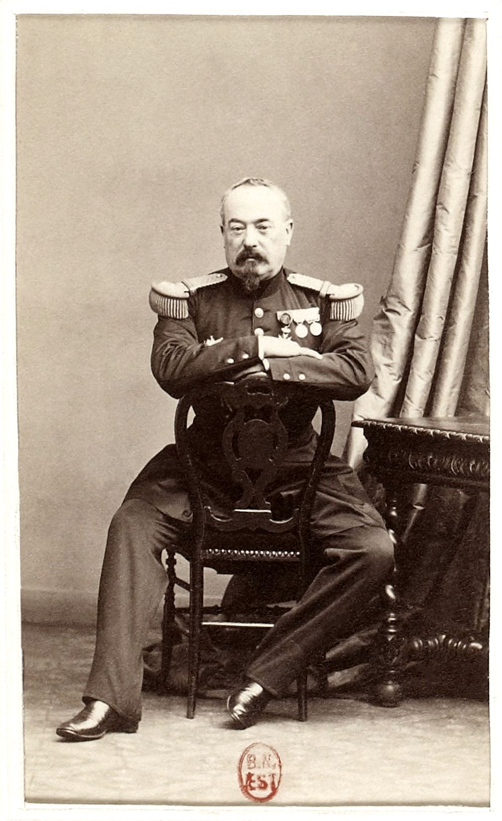 François Achille Bazaine (1811-1888), was marshal of France, and General in Chief of the Armée du Rhin, when he surrendered with all his army in Metz in 1870.